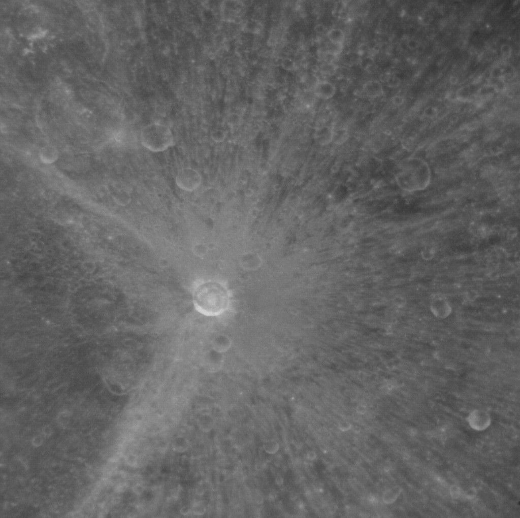 Qi Baishi crater on Mercury, with bright ray system. MESSENGER Narrow Angle Camera. North is up. Emission Angle: 24.2 Incidence Angle: 4.0 Latitude: -3.9 Longitude: 165.0 Phase Angle: 28.2